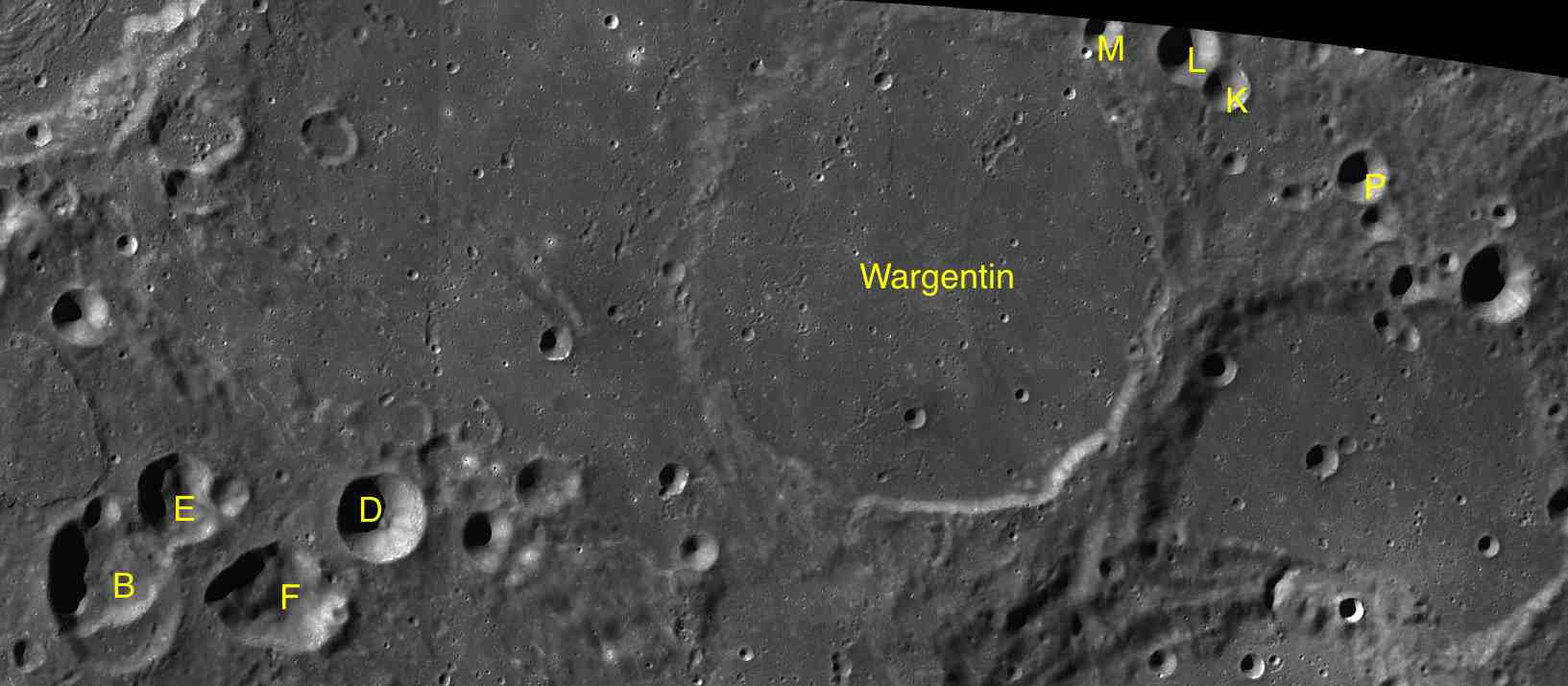 Part of chart LAC-124 used for the presentation.